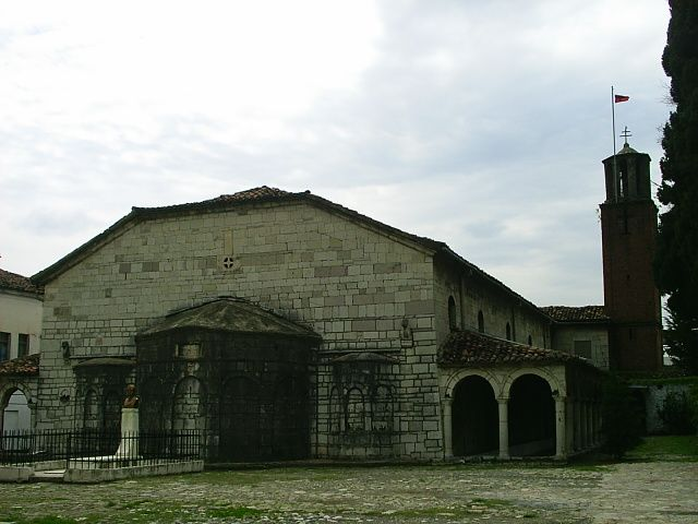 St. Mary's Church, City of Elbasan, Albania